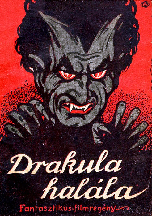 Bookjacket Lajos Pánczél: Dracula halála, Romania, Timișoara, 1924.